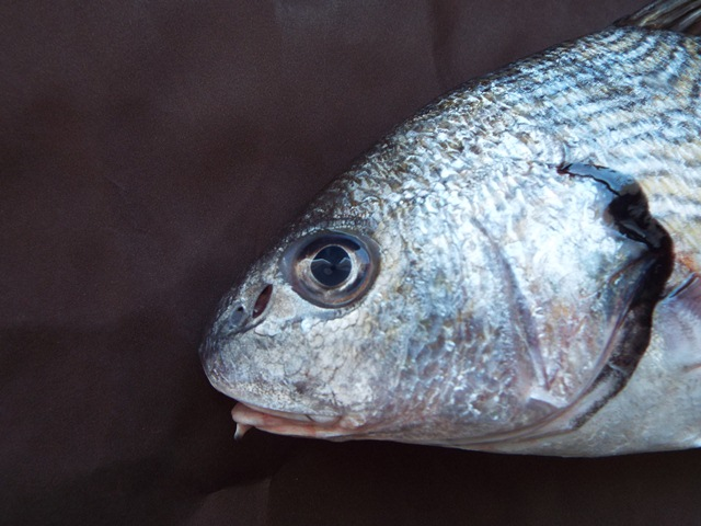 Umbrina cirrosa collected in north Tyrrhenian sea, Tuscany, Italy